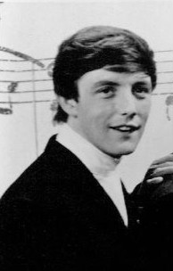 Photo of Mike Smith from an appearance on Sullivan's show.